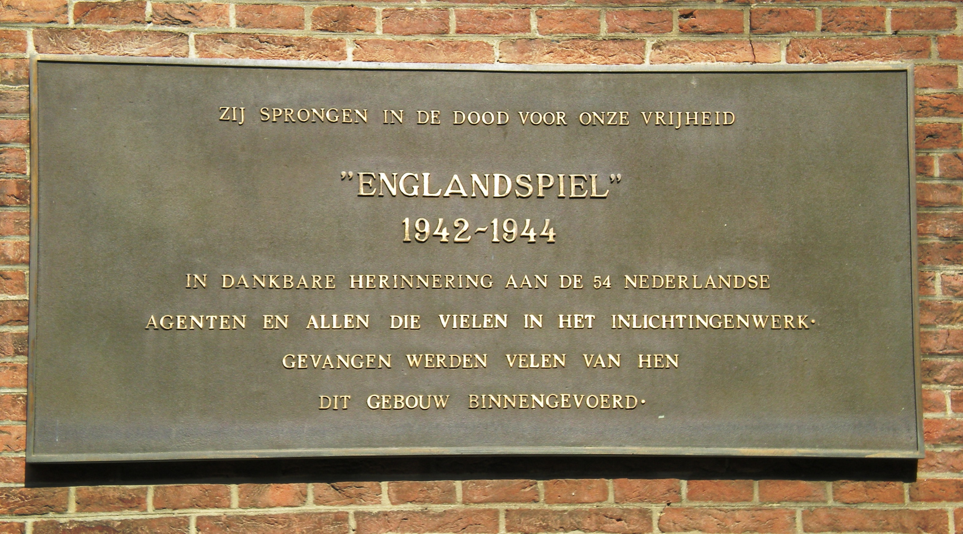 Plaquette Englandspiel at the Binnenhof in The Hague